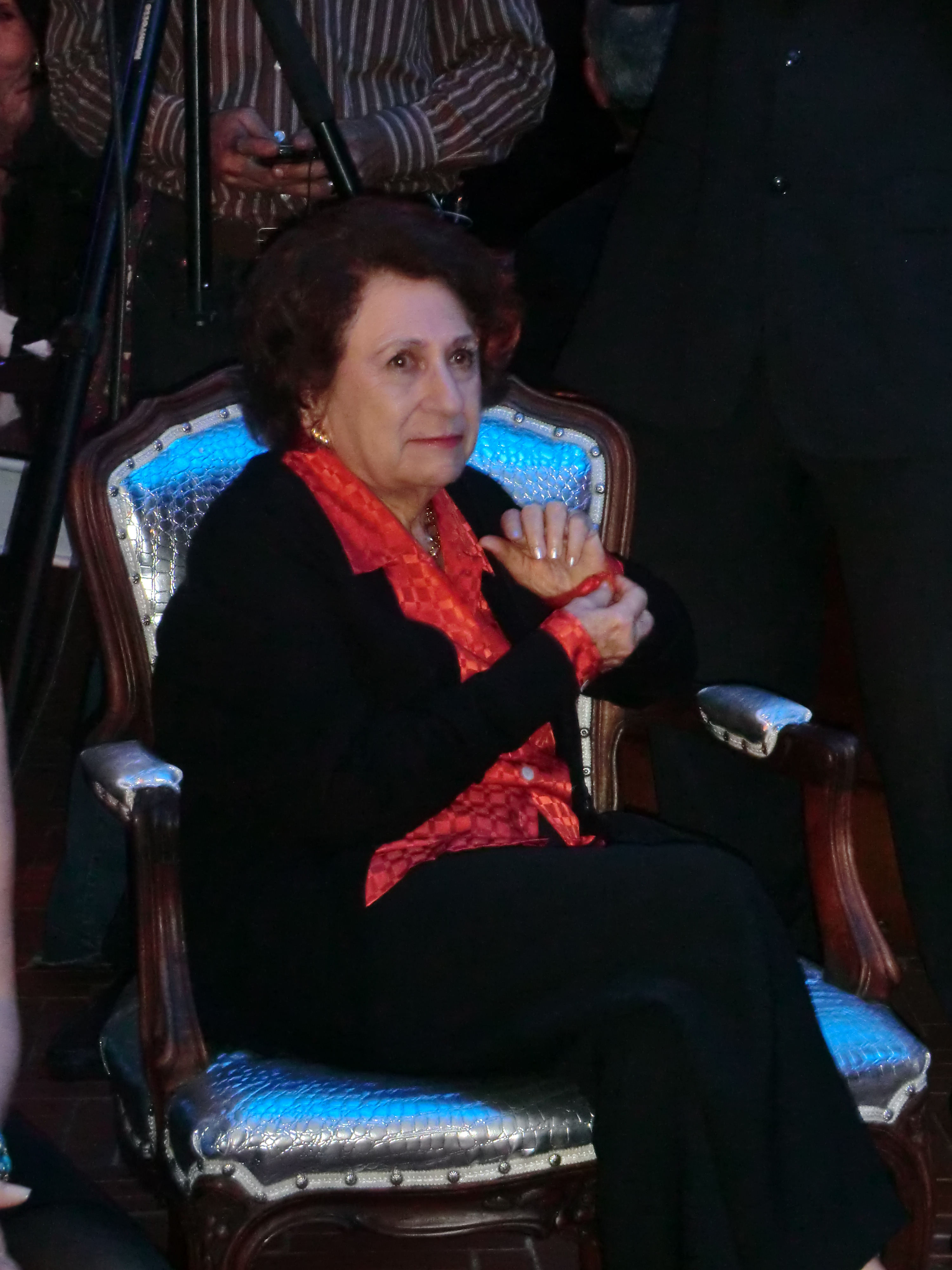 Venezuelan director Margot Benacerraf in February, 2012.